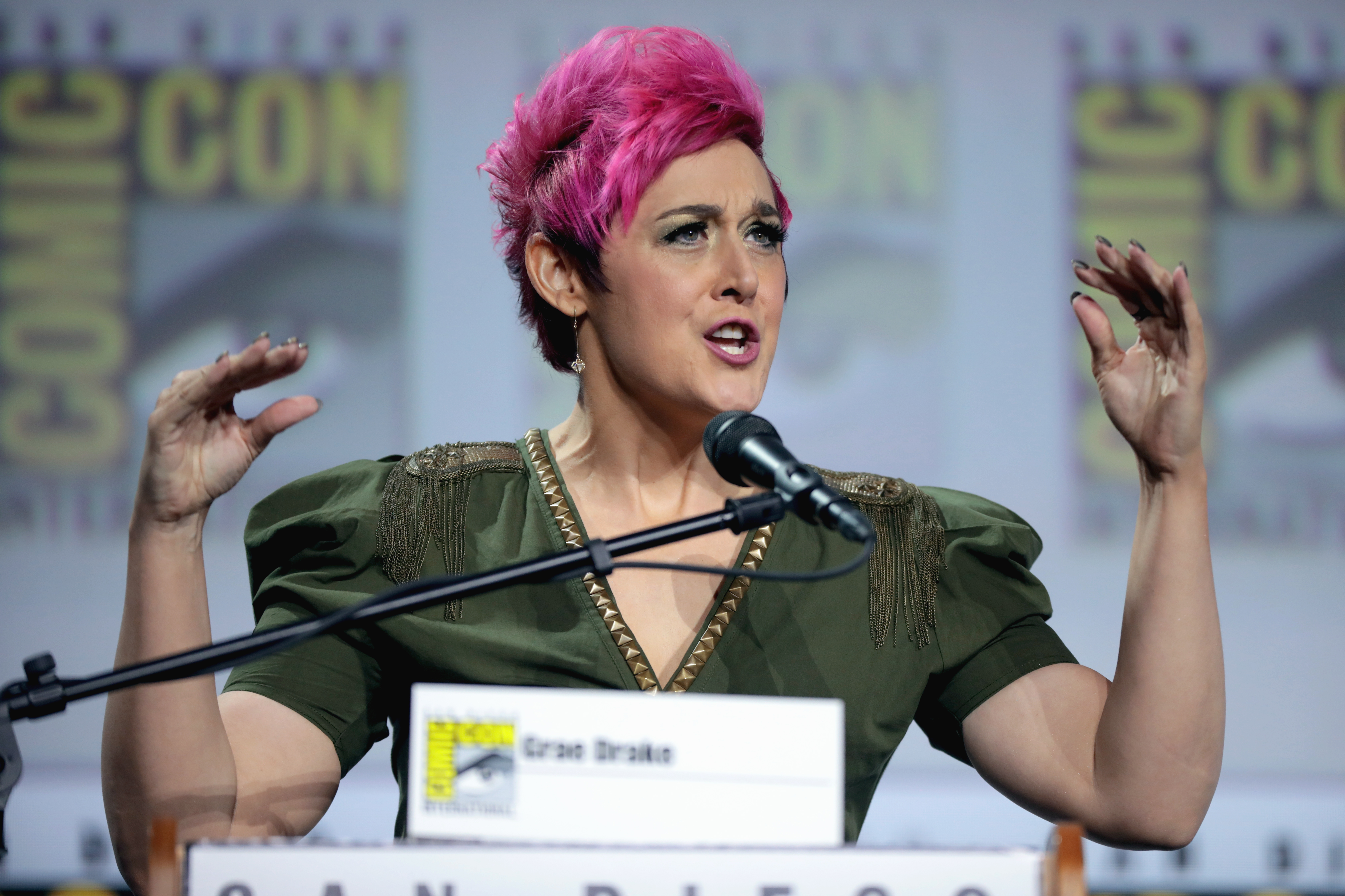 Grae Drake speaking at the 2019 San Diego Comic Con International, for "Terminator: Dark Fate", at the San Diego Convention Center in San Diego, California.